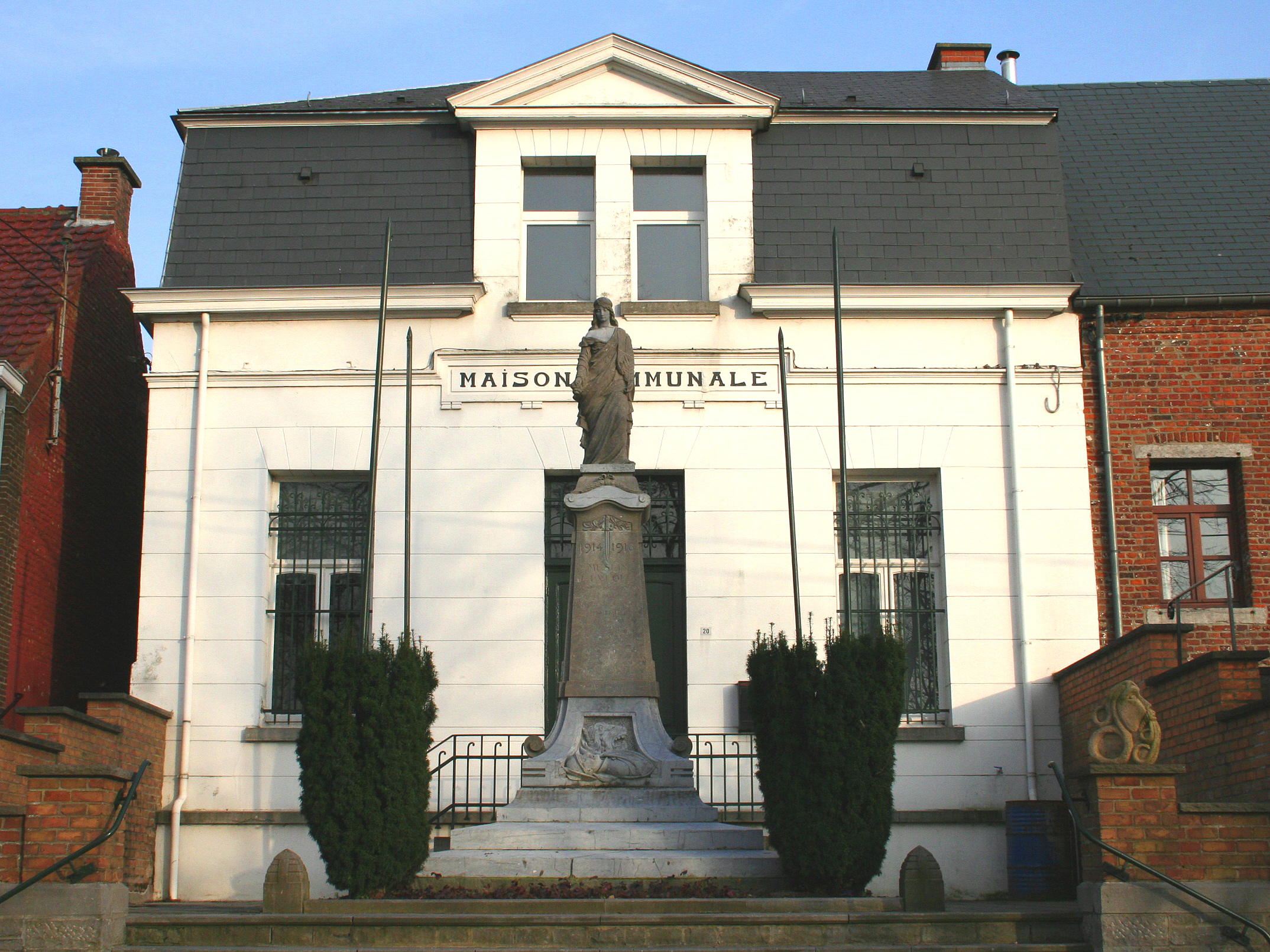 Meslin-l'Evêque (Belgium), the former city hall and the memorial dedicated to the military and civil victims of the First World War.